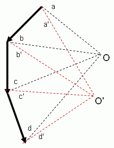 Two auxiliar diagrams for the calculus of funicular polygon